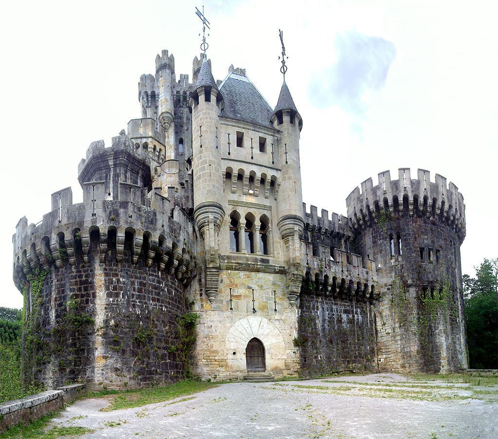 Castle of Butron (Gatica, Biscay, Spain)